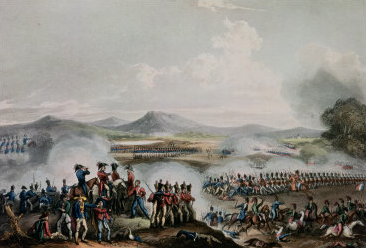 The battle of Talavera de la Reina